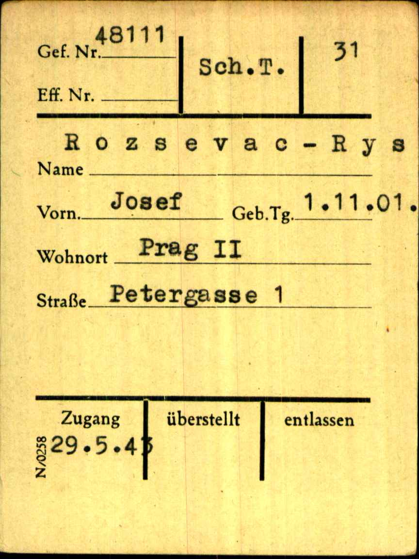 Registration card of Jan Rys-Rozsévač as a prisoner at Dachau Nazi Concentration Camp. His first name was mistakenly registered as "Josef".